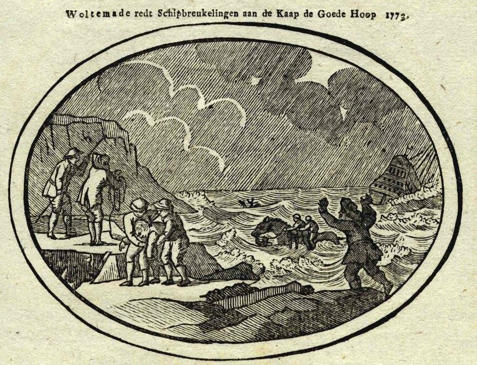 Wolraad Woltemade saves sailors